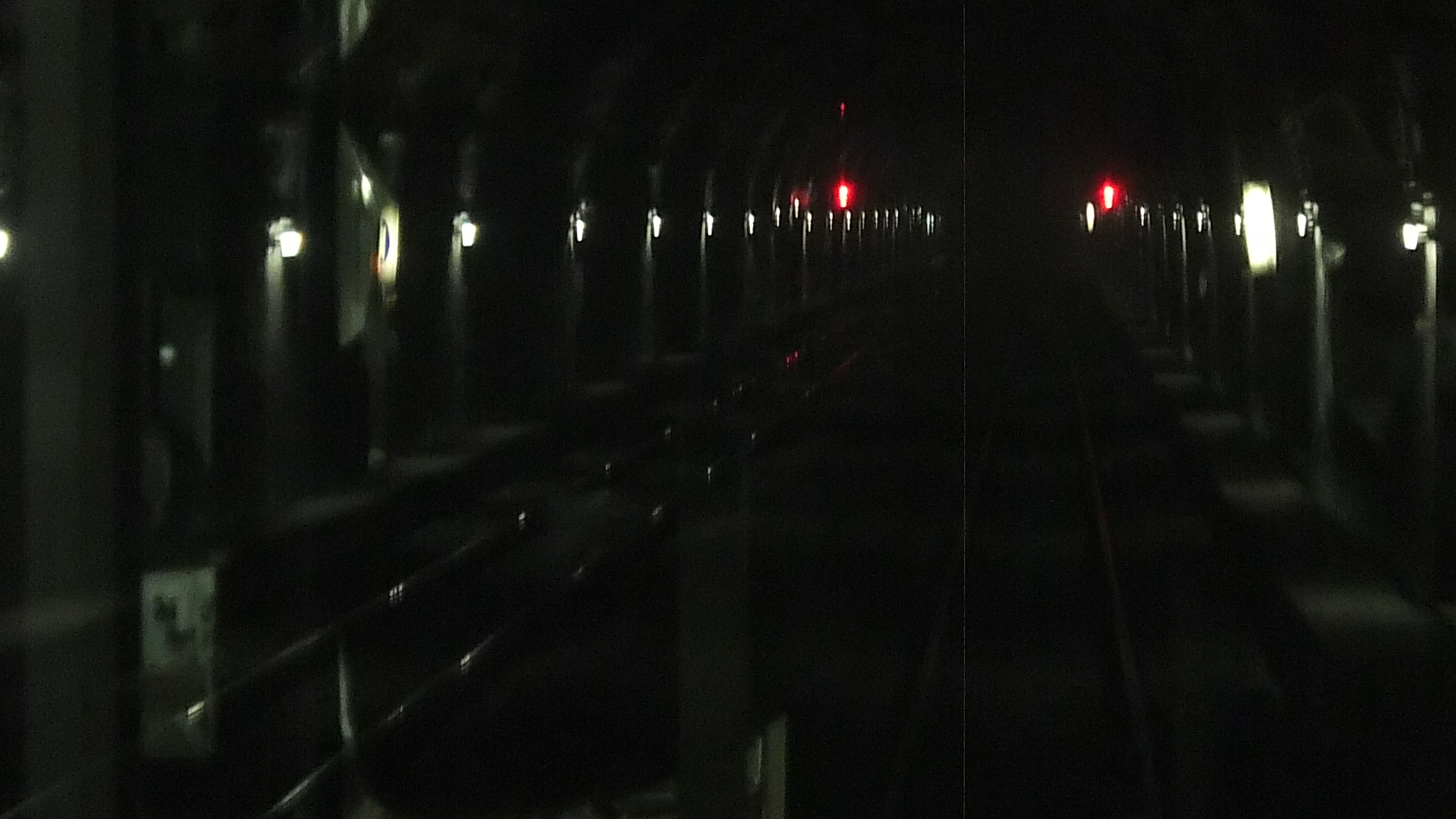 Hizen-Mikawa Signal station from JR Kyushu 817 Siries（Big Exif）.